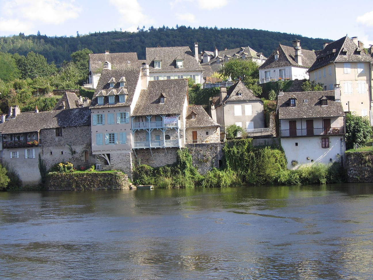 The Dordogne river in the town of Argentat